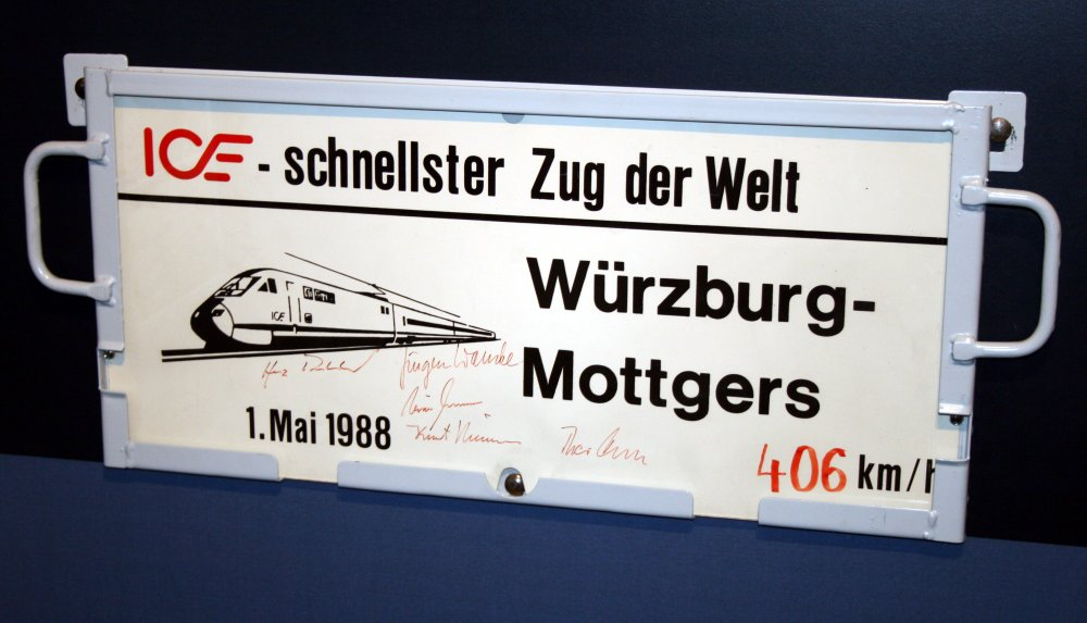 Destination plate of the ICE-V world-record that took place on May 1st, 1988, at the Deutsche Bahn museum in Nuremberg. The train reached a top speed of 406.9 kph on the Würzburg-Mottgers section of the Würzburg-Hannover high-speed line. It says: "ICE - fastest train of the world."